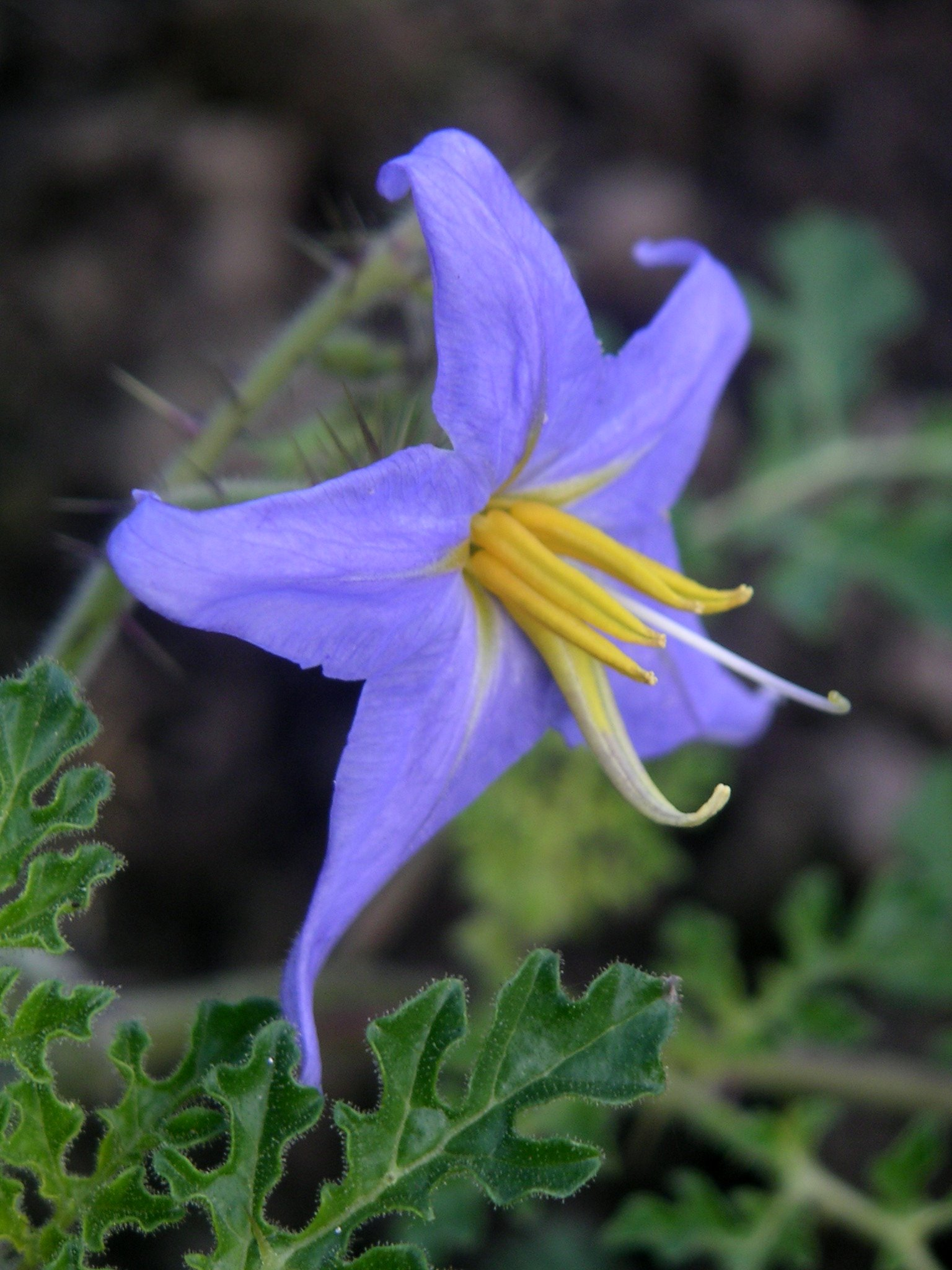 Flower of Solanum citrullifolium at Botanical Garden Krefeld, Germany.